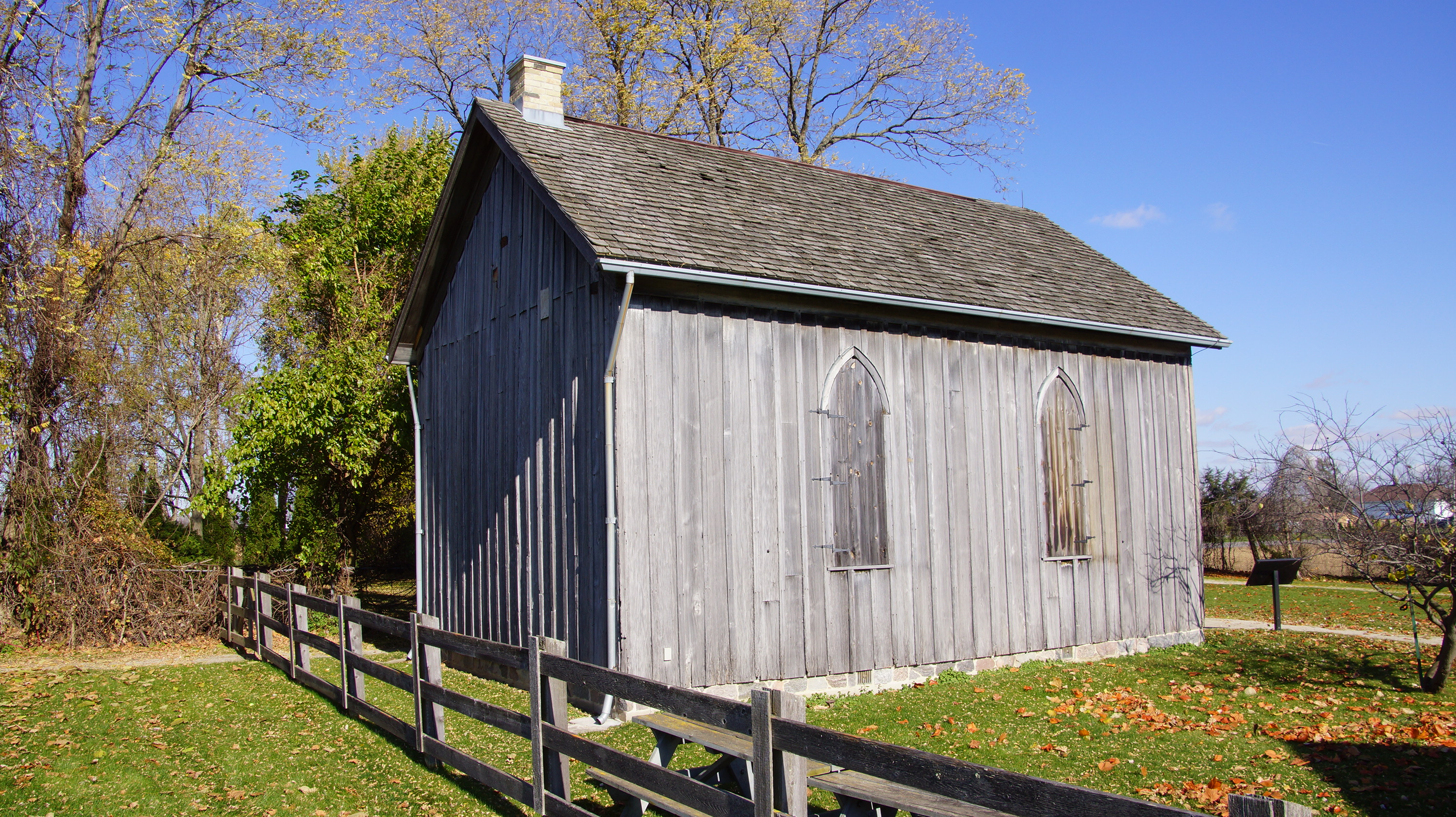 Uncle Tom's Cabin Historic Site is an open air museum and African American history centre near Dresden, Ontario, Canada, that includes the home of Josiah Henson, a former slave, author, abolitionist, and minister, who, through his 1849 autobiography The Life of Josiah Henson, Formerly a Slave, Now an Inhabitant of Canada, as Narrated by Himself, was the inspiration for Harriet Beecher Stowe's title character in her novel Uncle Tom's Cabin.The 5-acre (20,000 m²) complex is part of the original 200 acres (0.81 km²) of land purchased in 1841 to establish the Dawn Settlement, a community for escaped slaves.